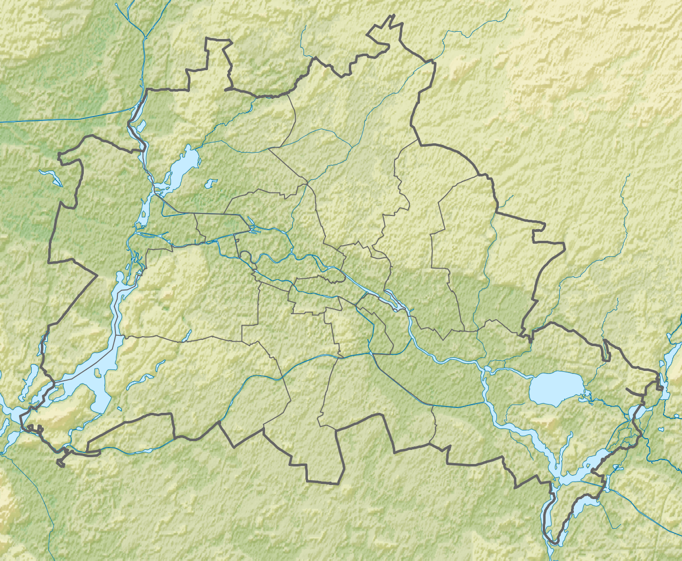 Location map Berlin, Germany. Geographic limits of the map: * N: 52,684707° N * S: 52,327157° N * W: 13,066864° O * E: 13,781318° O